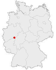 Location of the city Siegen, Germany in Germany.